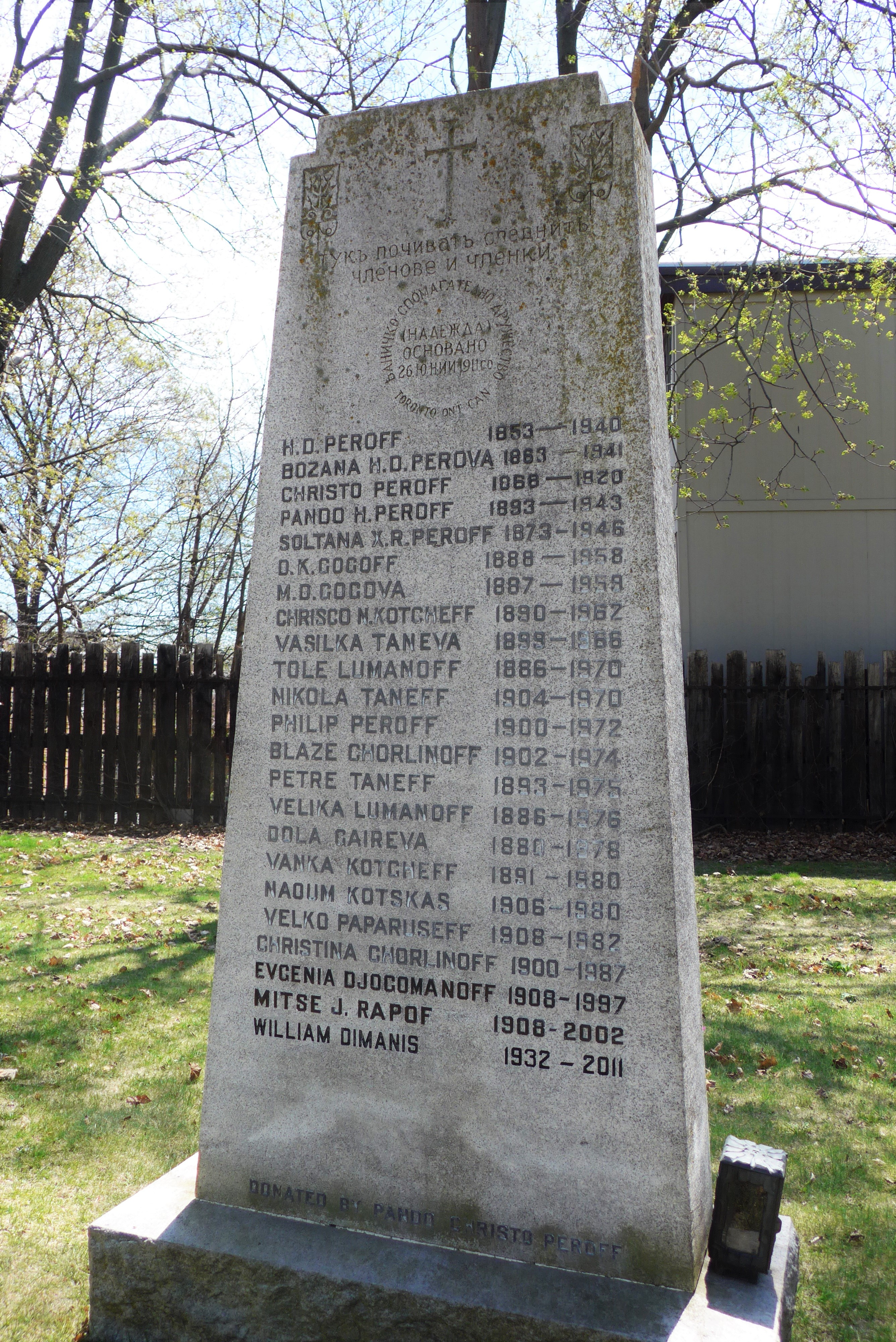 Banitsa. Bulgarian inscription on monument of the Banitsa Benevolent Society "Nadezhda" from 1911 in St. James Cemetery, Toronto